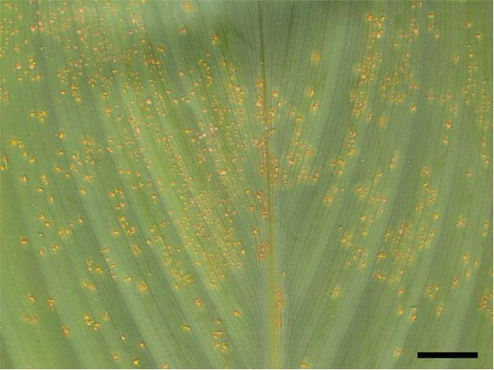 Uredinia of Puccinia thaliae on Canna indica. Scale bar = 1 cm.